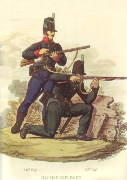 British Riflemen Source : own collection Fair use Rationale : to be used to relate to The Royal Green Jackets (Rifles) Museum, the descendant regiment.